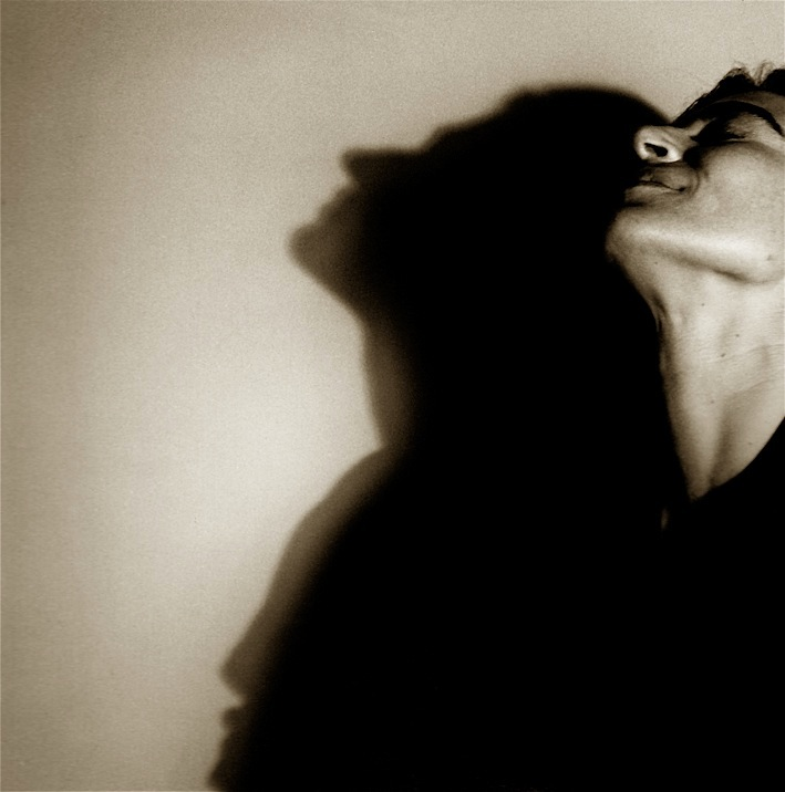 Lina Sastri - foto di Augusto De Luca